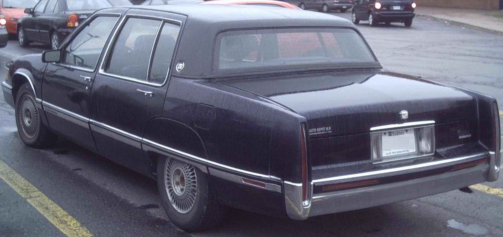 1993 Cadillac Sixty Special photographed in Montreal, Quebec, Canada